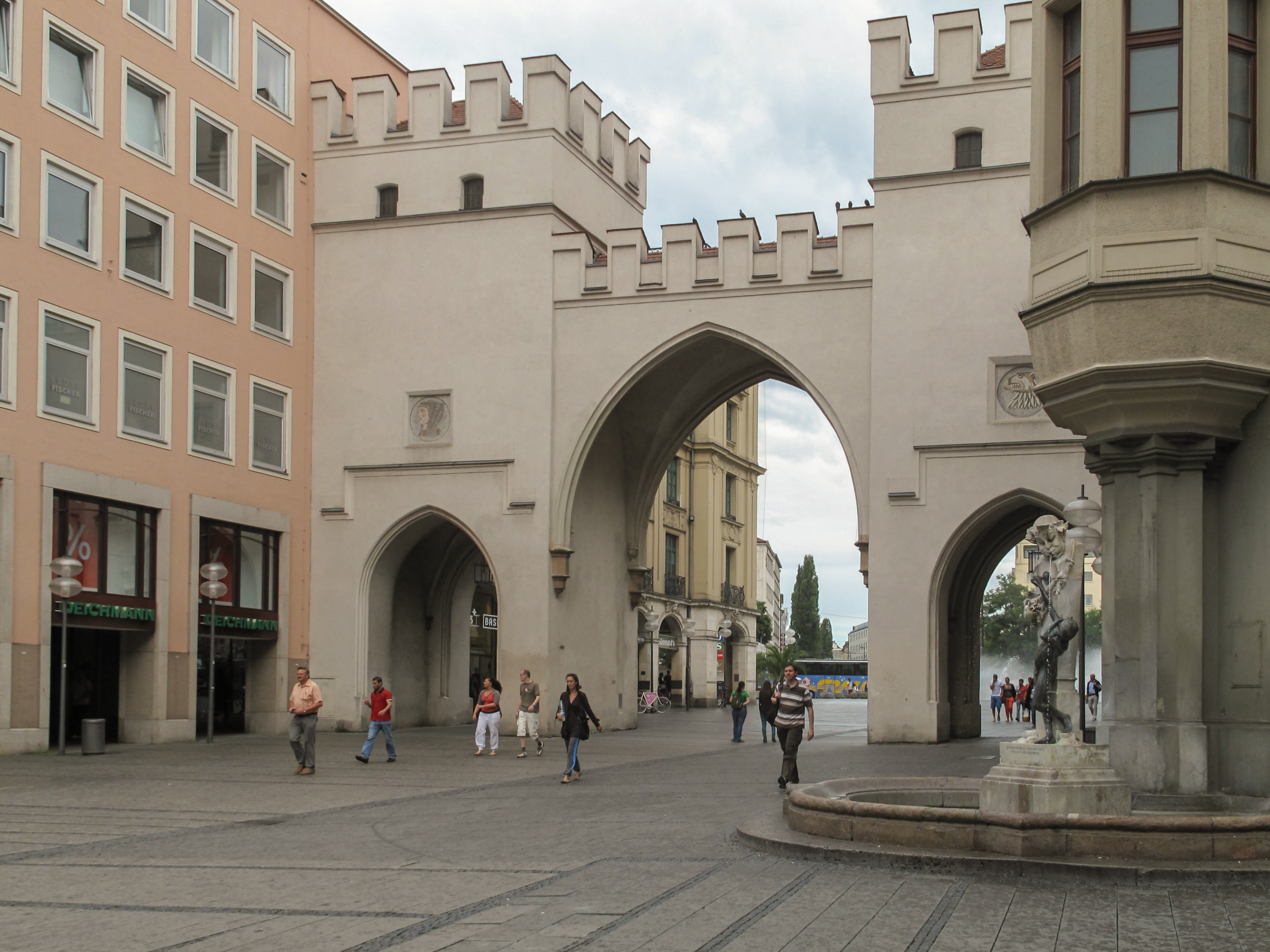 Munich, gate near the Karlsplatz